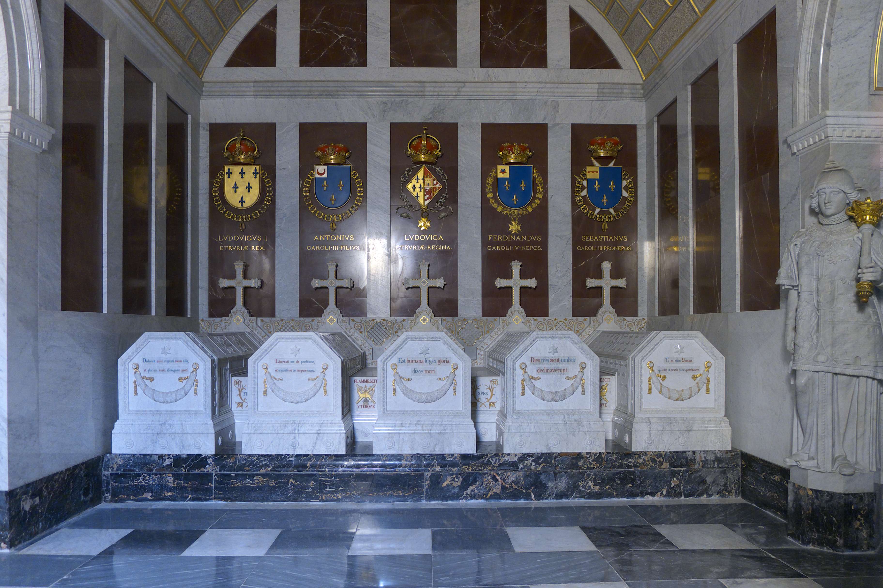 Pantheon of the Infantes - Chapel 7